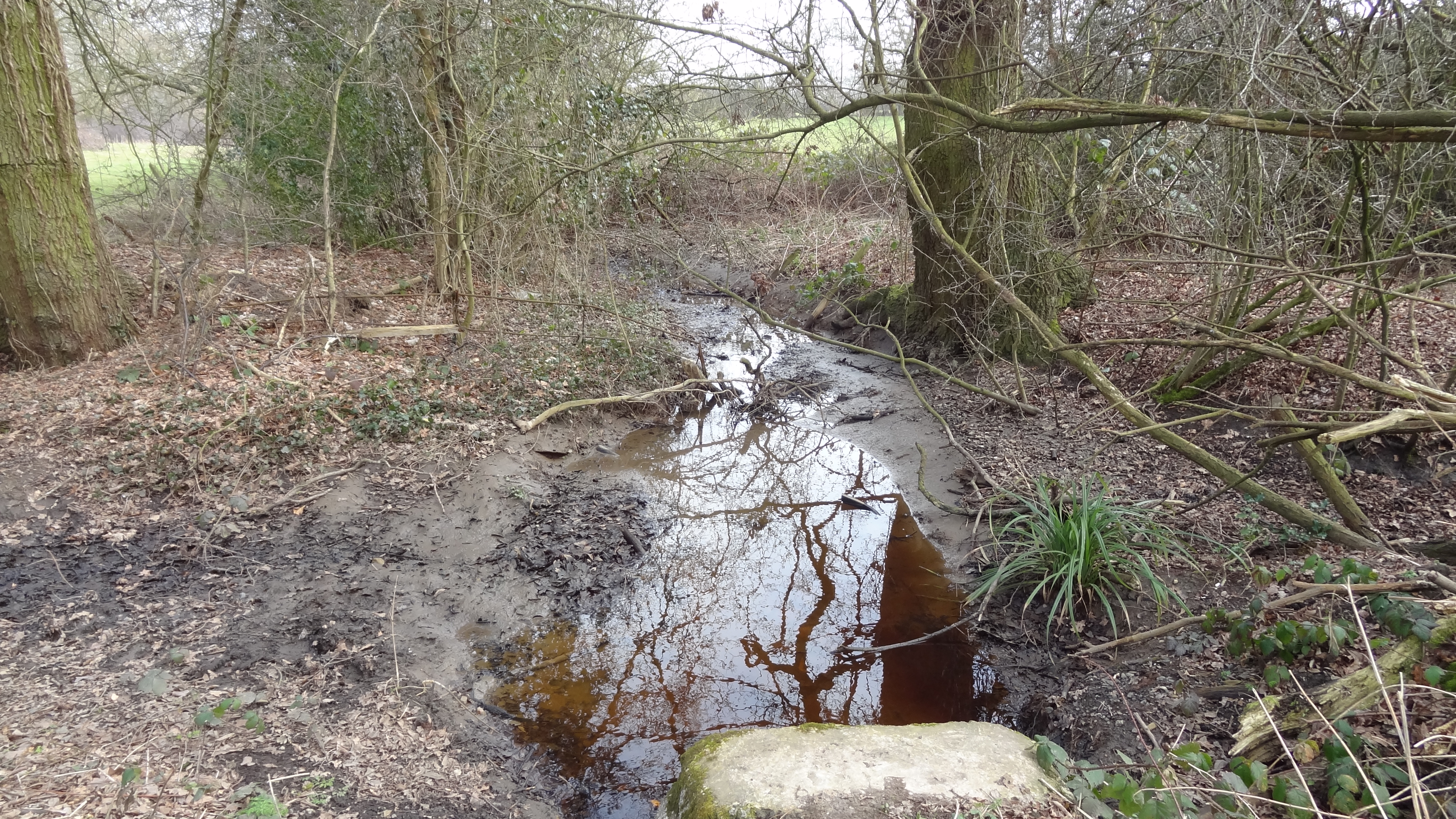 Burtonhole Brook in Mill Hill, Barnet, London, is part of the Burtonhole Lane and pastures nature reserve.